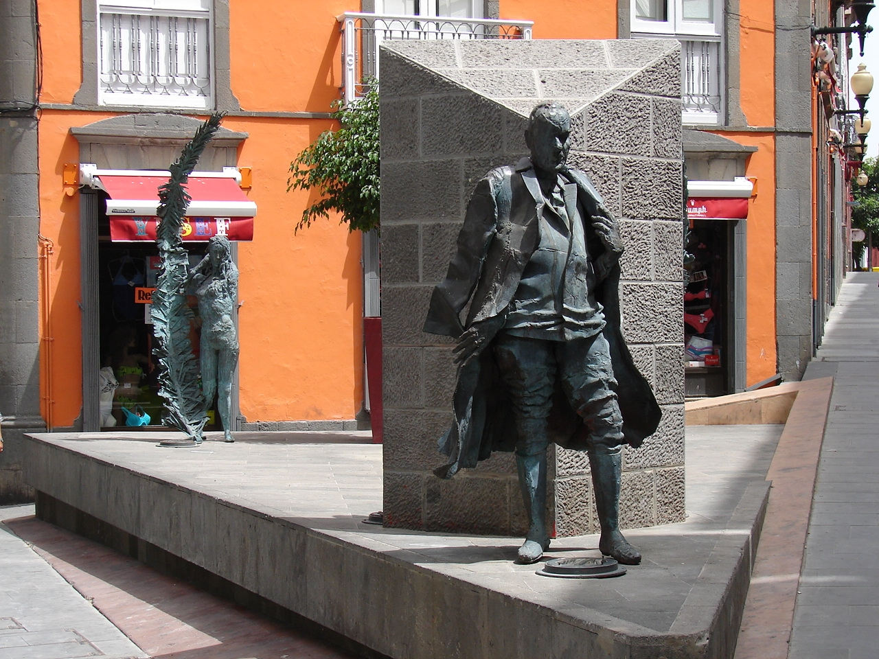 Doctor, physiologist and Spanish politician, President of the Government of the Second Republic between 1937 and 1945 (in exile).